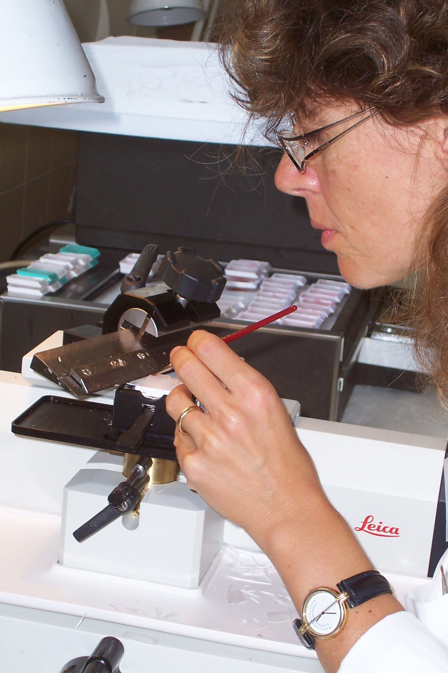 Lab. of Pathology - Monfalcone Hospital (Italy). How histological slides are prepared in practice. A tecnician is cutting a tissue block.